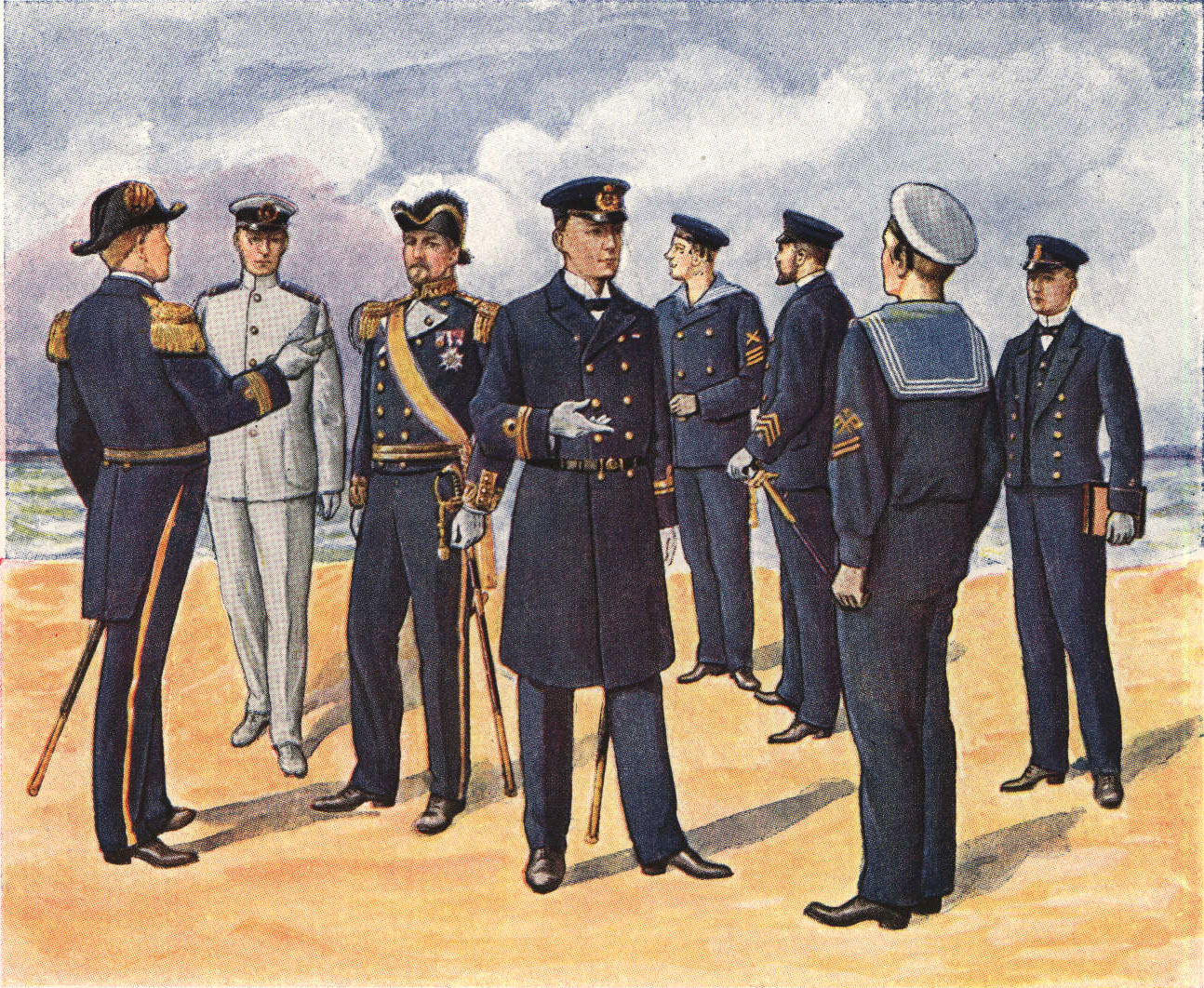 Uniforms of the Swedish Navy, the fleet.